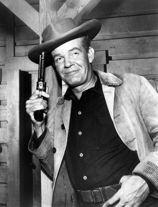 Photo of Andrew Duggan as a guest star on the television program Lawman.